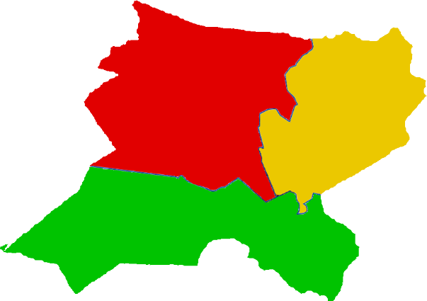 Subdivision of Jiayuguan